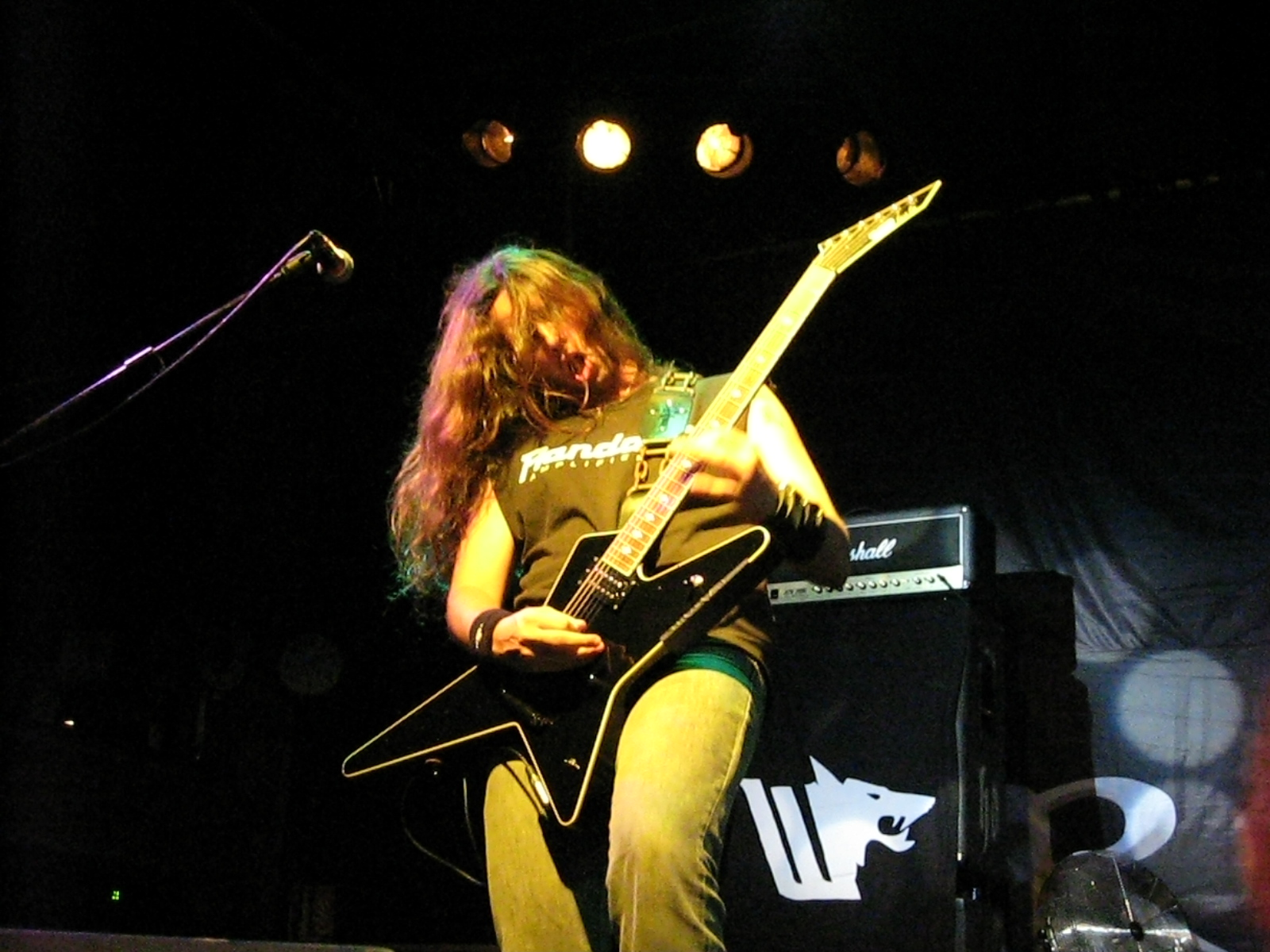 Firewind at JB's, Dudley. 2007-08-18. The man himself, Gus G.